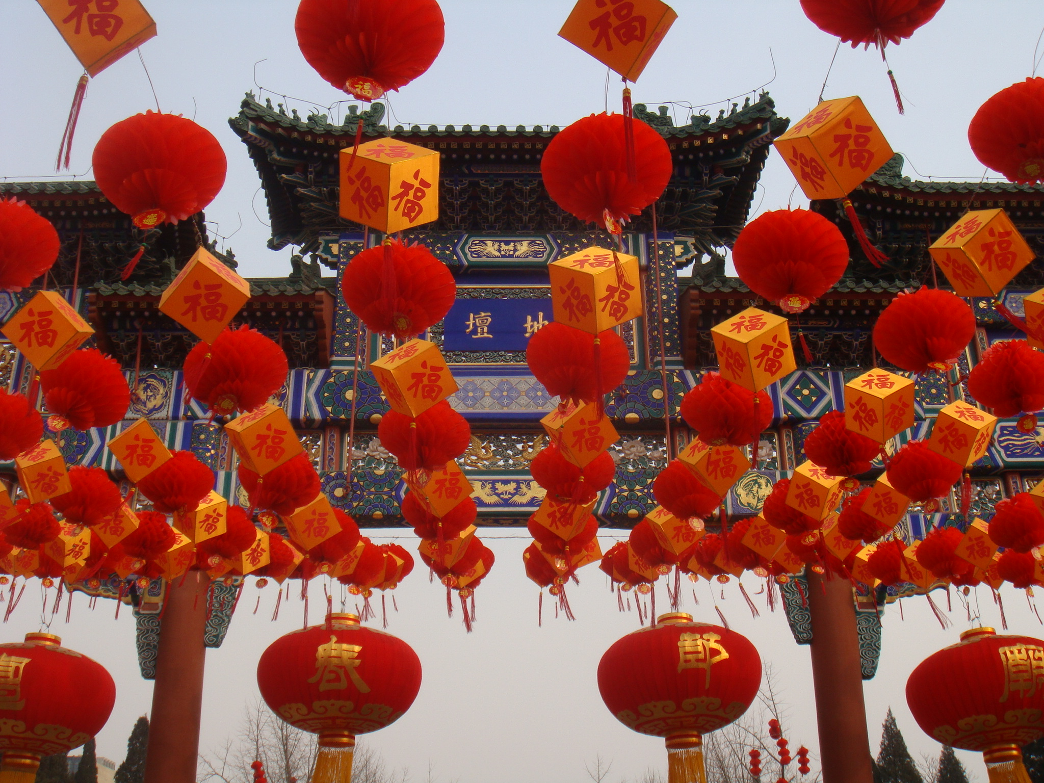 Temple Fair in Beijing